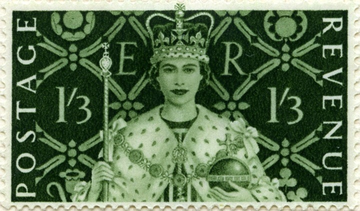 1/3 value postage stamp issued on 3 June 1953 by Royal Mail for the coronation of Queen Elizabeth II of the United Kingdom